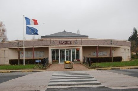 photography